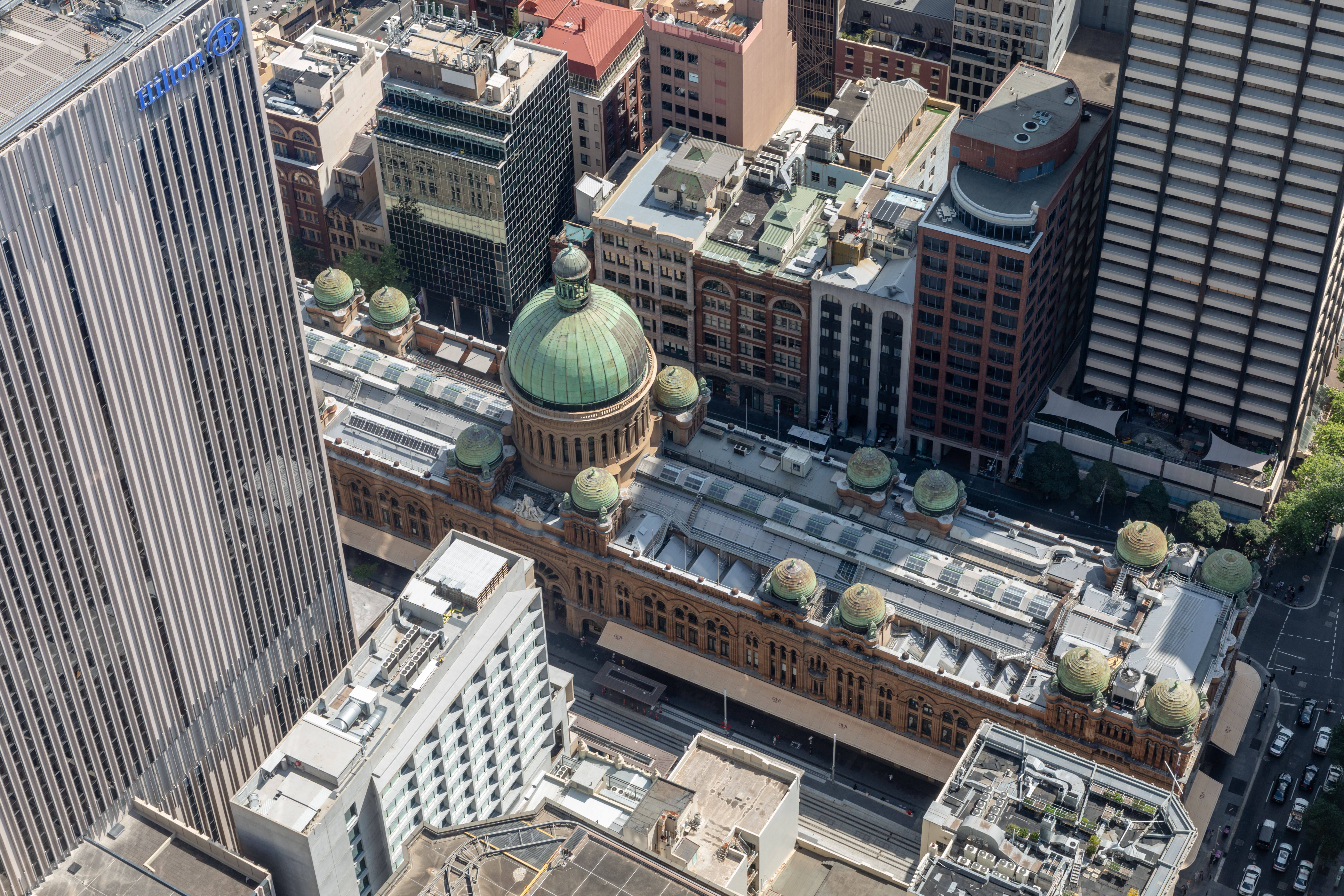 View from Sydney Tower to the Queen Victoria Building, Sydney, New South Wales, Australia